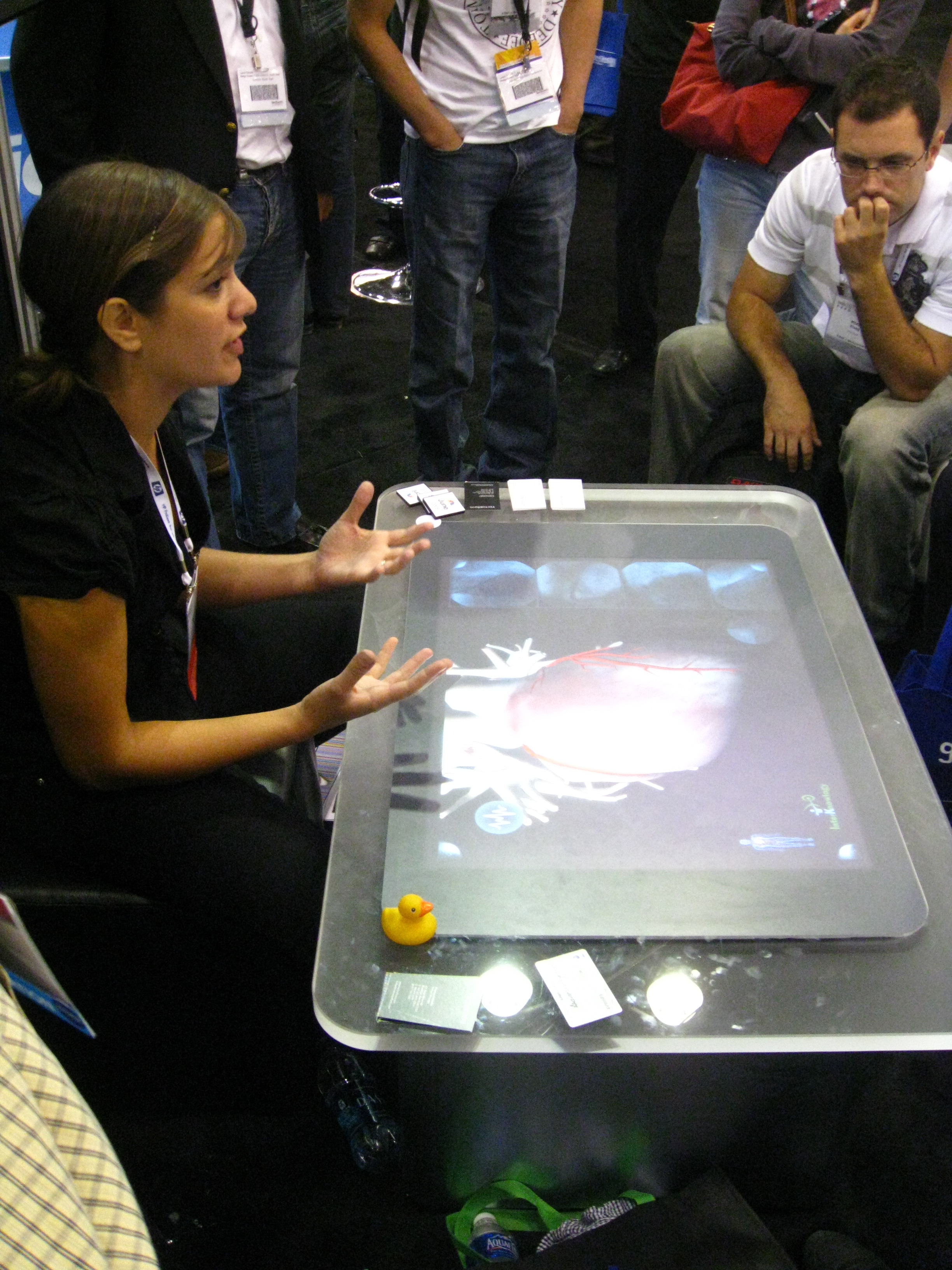 A demo of Microsoft Surface